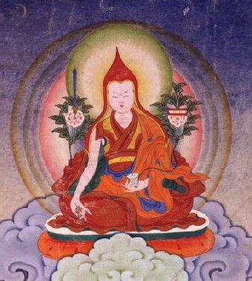 Jamyang Khyentse Wangpo b.1820 - d.1892, Tibetan Nyingma Terton